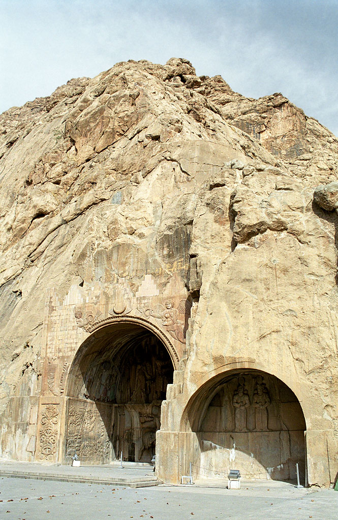 Taq-e Bostan: view of the two grottoes